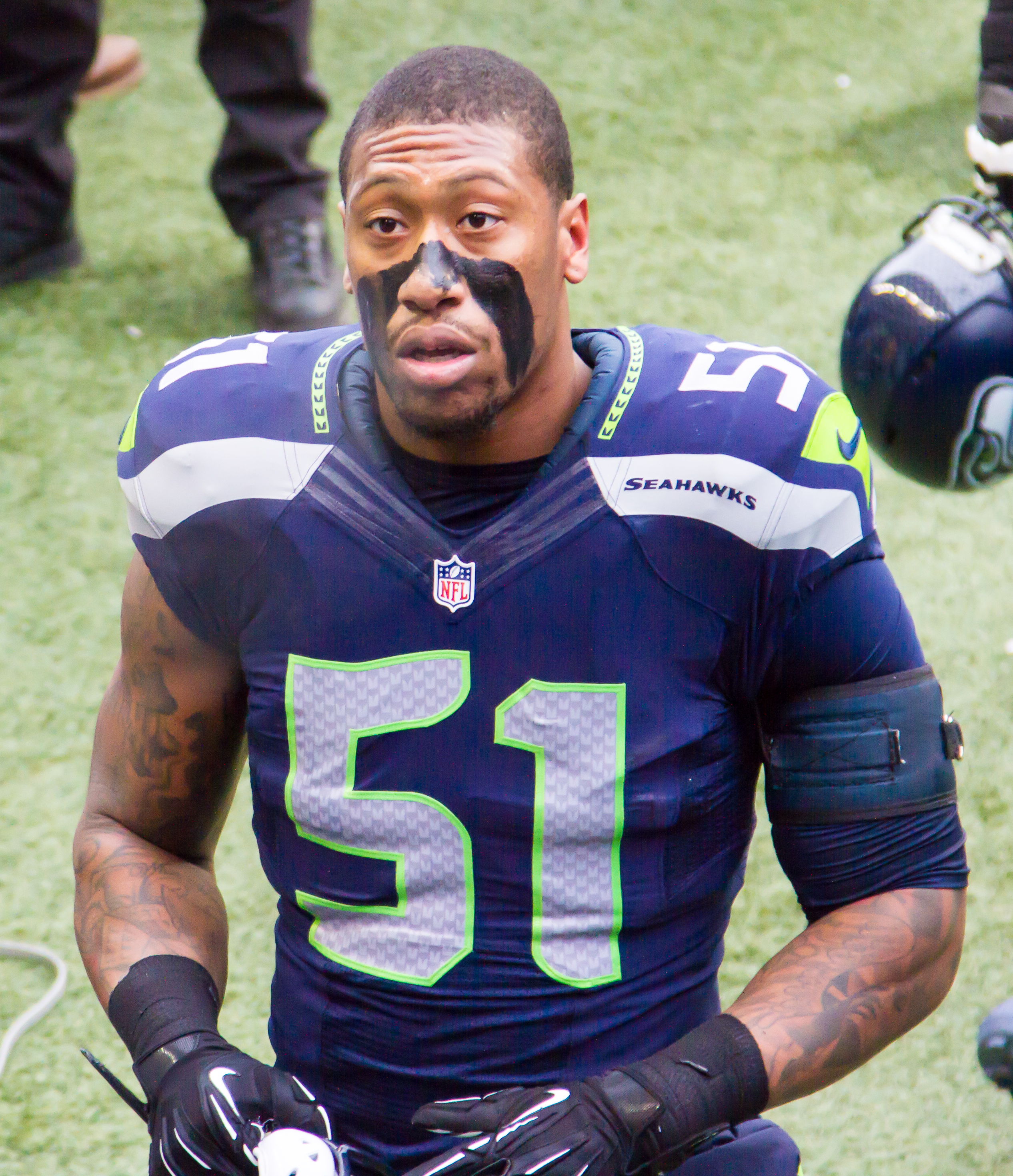 Seattle Seahawks linebacker Bruce Irvin after a game in 2013.